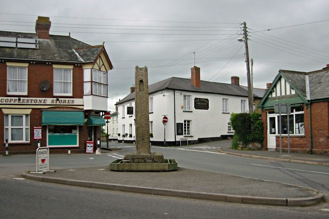 Copplestone Village Centre The old stone cross is the centrepiece of this village square.